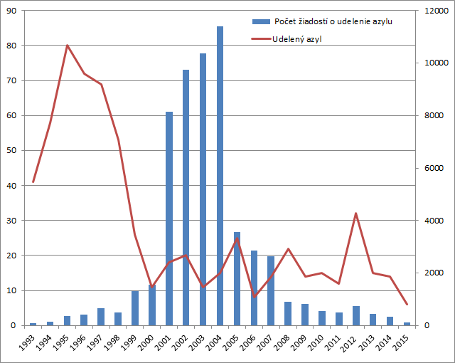 Number of asylum seekers in Slovakia since 1993 and the number of granted asylumns. Source: Ministry of Interior of the Slovak republic (in SLovak)